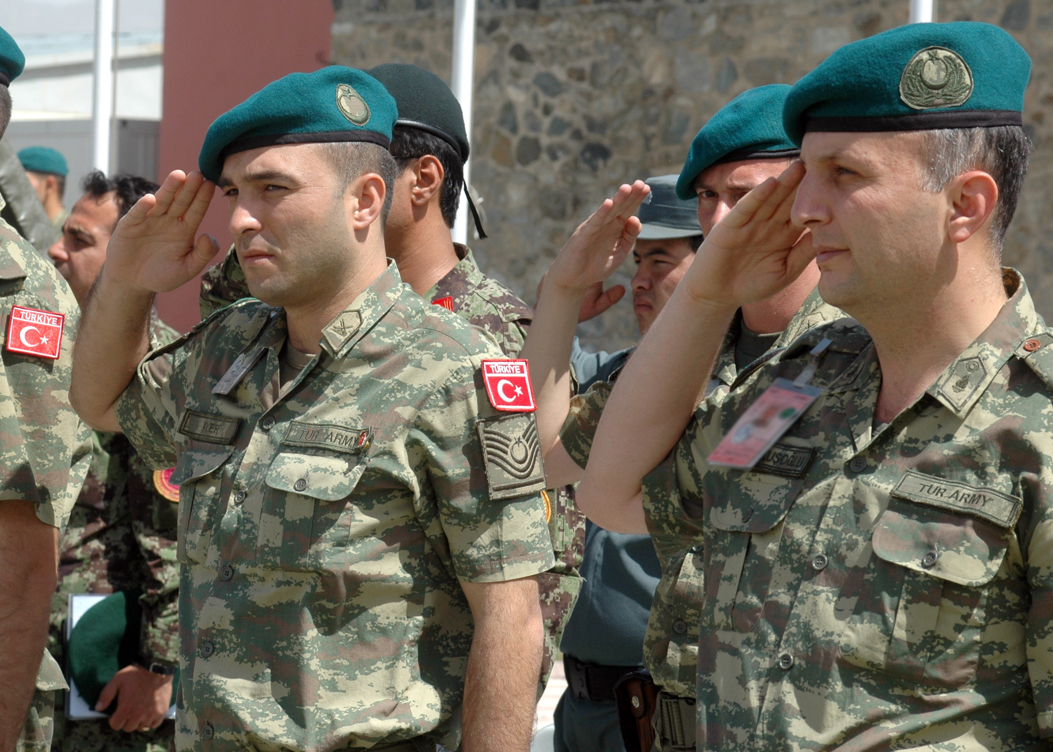 100614-N-3218H-002 (Kabul, Afghanistan) Two Turkish soldiers salute while the Afghan National Army band plays the national anthems of Turkey and Afghanistan. Turkey has an outstanding relationship with Afghanistan and continues to support recovery and sustainment. (U.S. Navy photo by MC2 (SW) Christopher Hall)